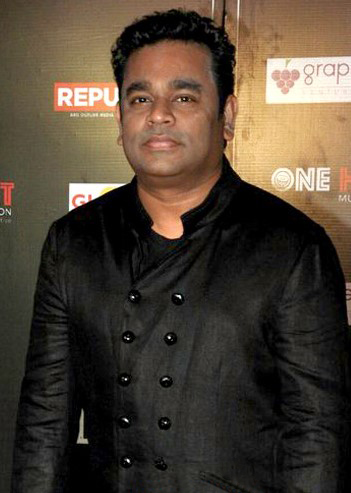 A. R. Rahman at the screening of his documentary.